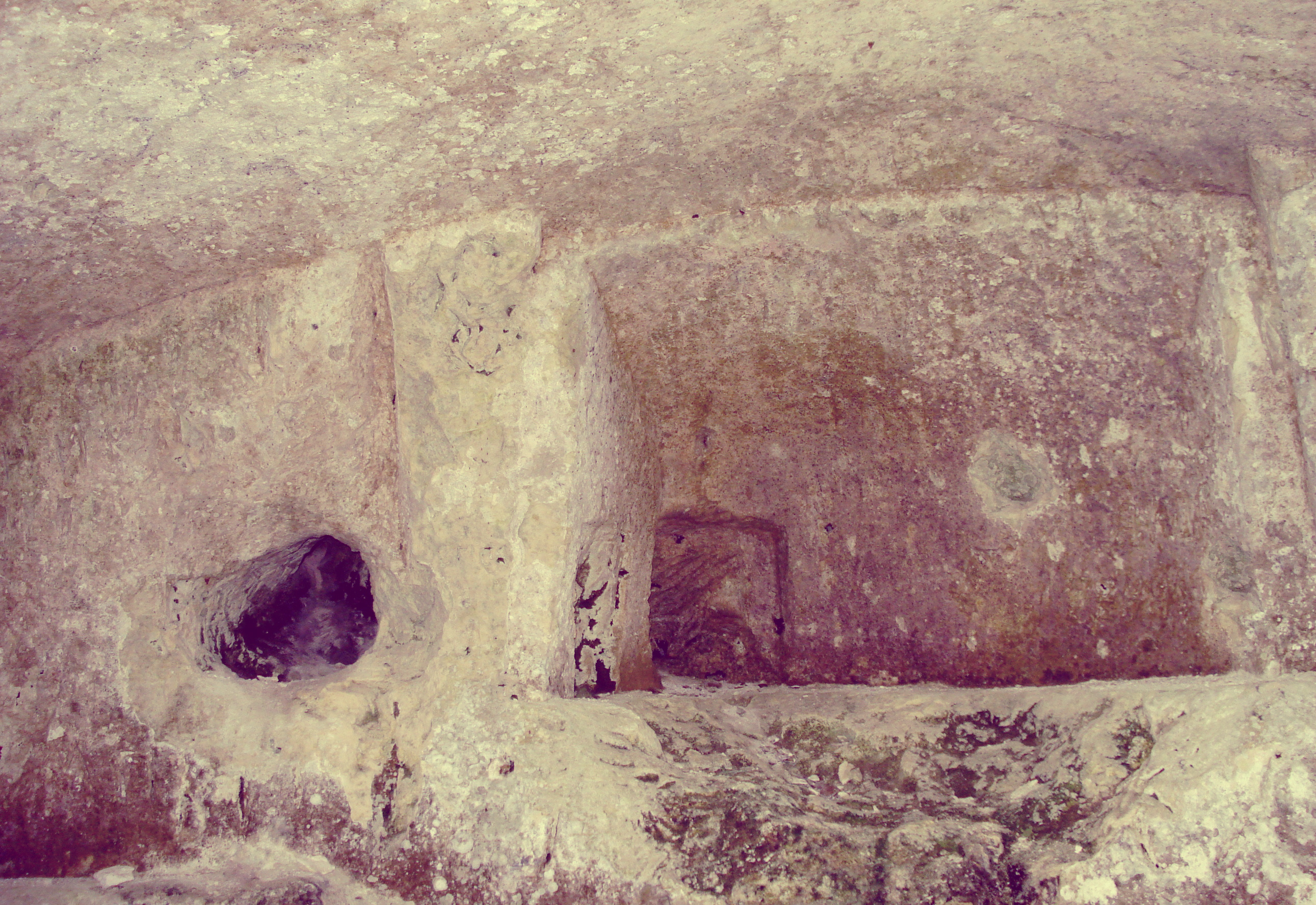 Pop Martin Skit 1